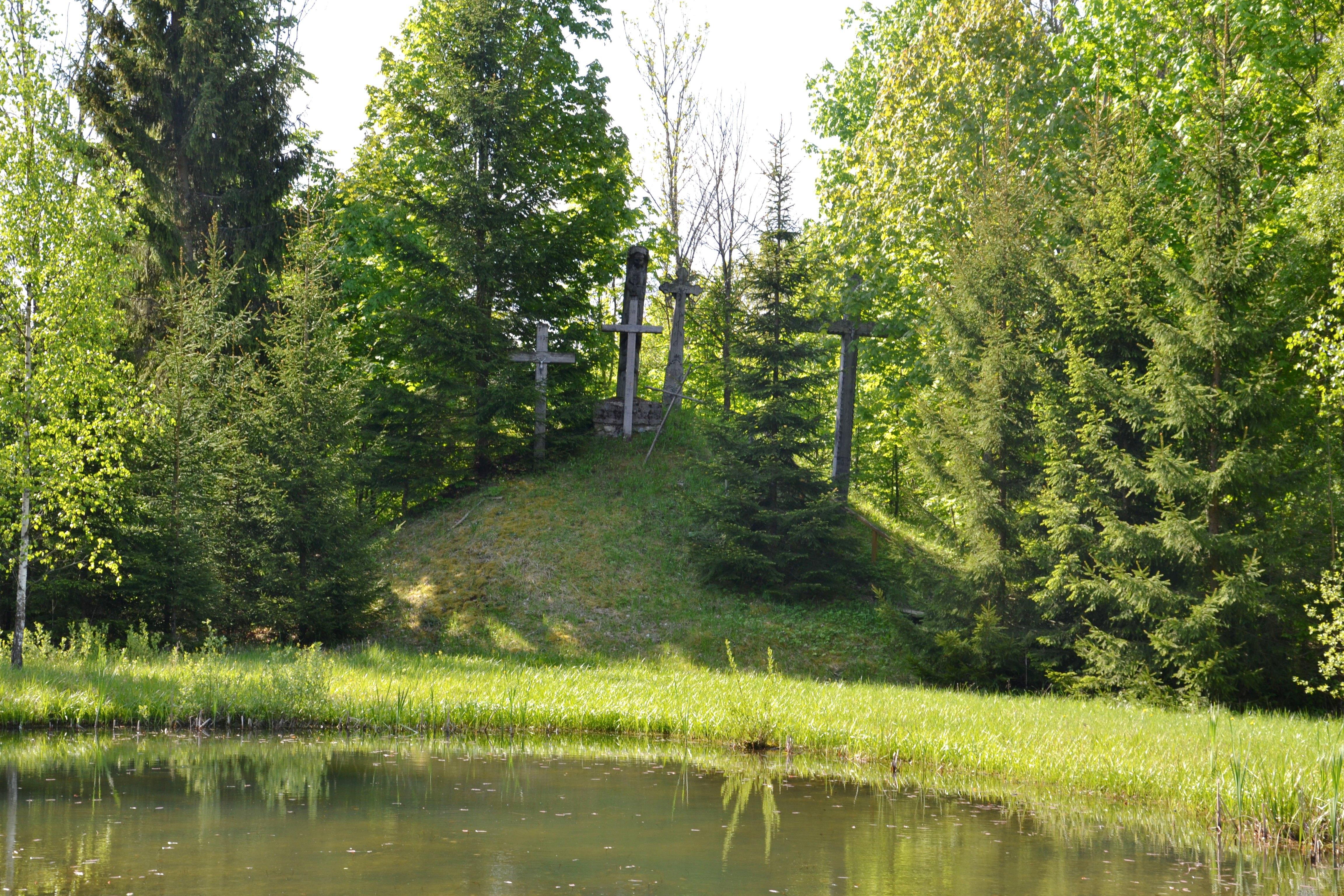 Hill of crosses remembered the 1863 year rebels, Kėdainiai distric, Lithuania